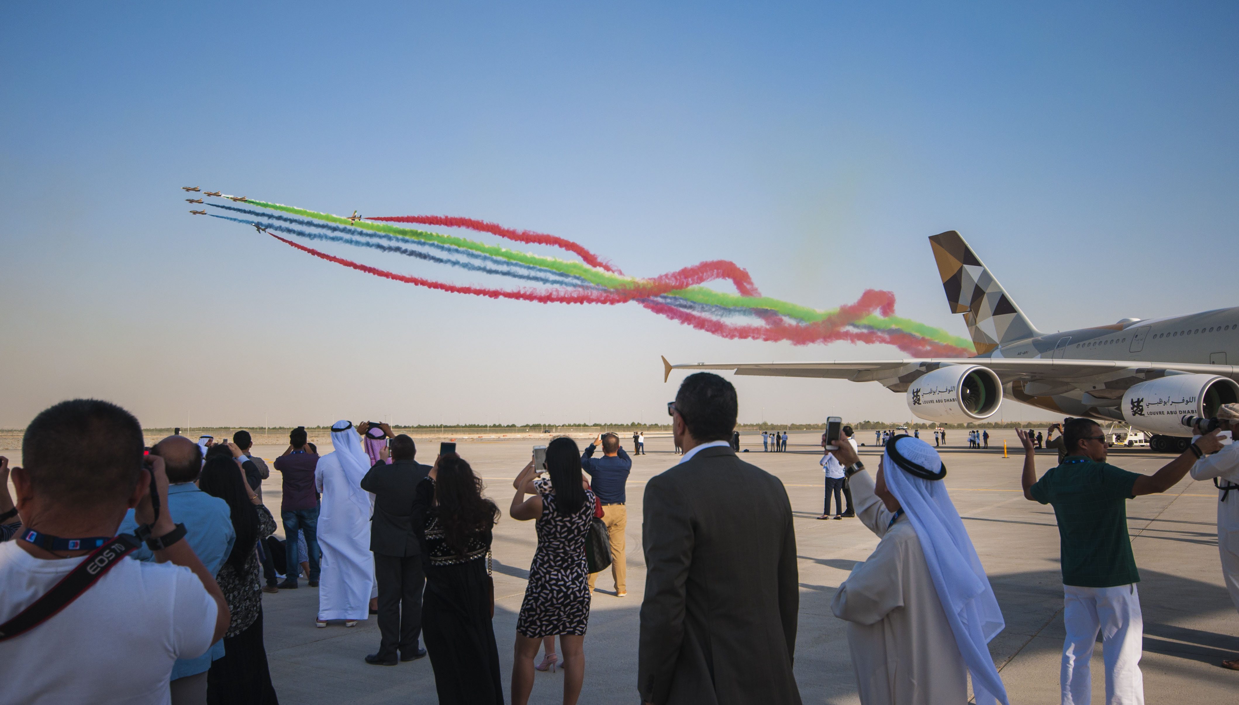 Visitors capturing the spectacular moments in the Dubai Airshow 2017